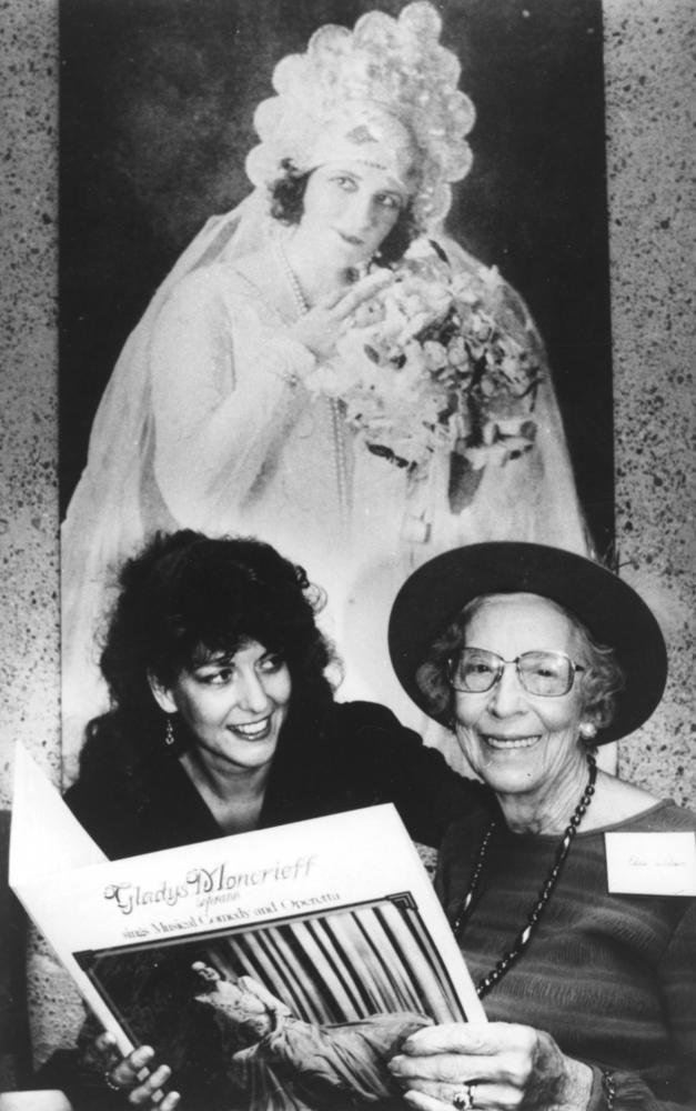 Elsie Wilson and Jeanette Burrows with memorabilia at the Gladys Moncrieff Library, Brisbane. Elsie Wilson, right, and the Queensland Performing Arts Trust Executive Officer, Ms. Jeanetts Burrows, with some of the memorabilia at the Gladys Moncrieff Library at thePerforming Arts Complex. (Description supplied with photograph.). There is a large studio portrait of Gladys Moncrieff on the wall behind them.